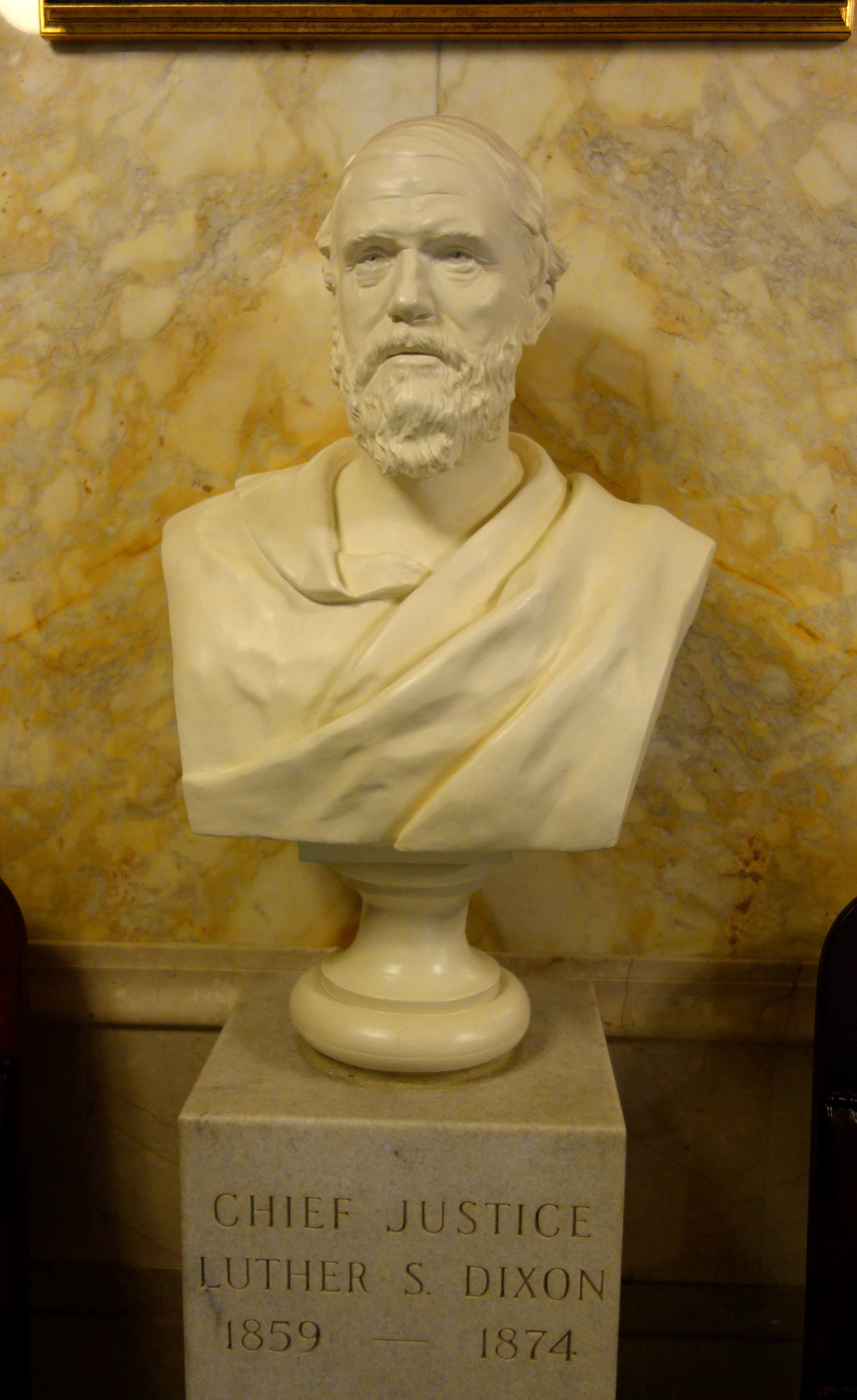 Bust of Luther Swift Dixon - Wisconsin Supreme Court, Madison, Wisconsin, USA. Artist unknown. This artwork is in the public domain because it was first published in the United States before 1923.